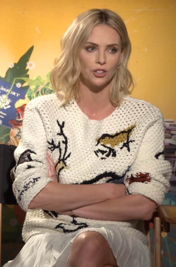 To celebrate International Womens Day 2018, MTV sat down with Jennifer Lawrence, Margot Robbie, Allison Janney, Charlize Theron and Alicia Vikander to get the insider take on how Hollywood is changing for women. Watch some of Hollywood’s biggest stars explain the changes they are seeing all around them, and what still needs to be done when it comes to female equality in the industry. #timesup